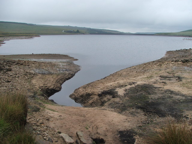 Withens Clough Reservoir. Looking NE.